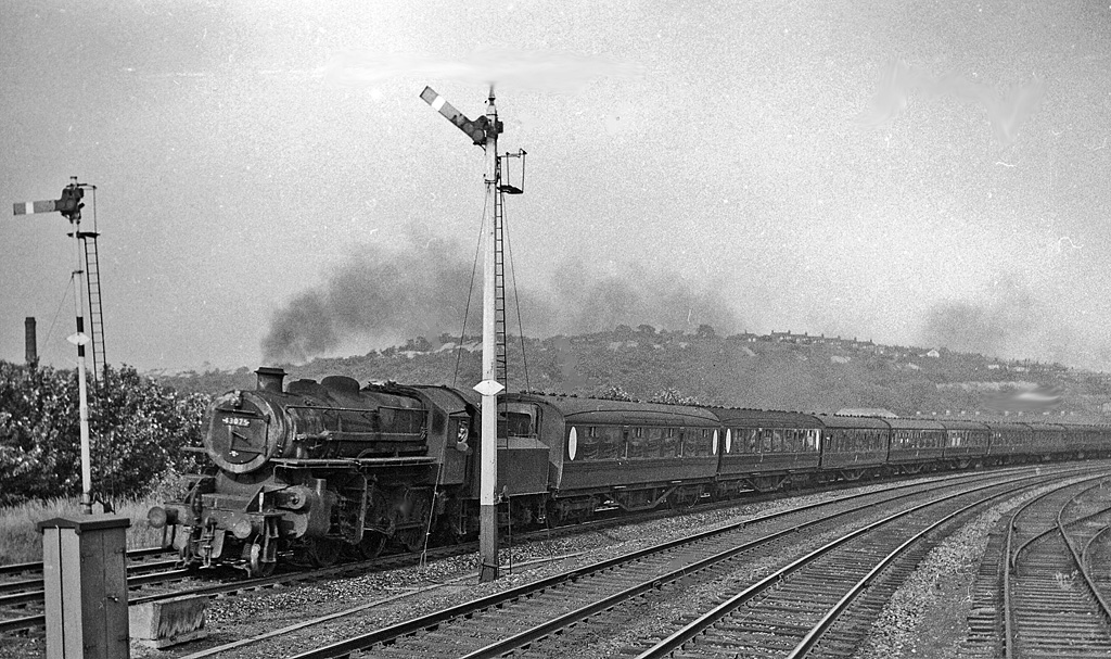 17.43 Leeds to Morecambe and Carnforth service at Newlay & Horsforth. View NE in Aire Valley, towards Butcher Hill; ex-Midland Leeds Shipley - Skipton - Carlisle/Morecambe/Carnforth main line. The locomotive is LMS Ivatt 4MT 2-6-0 No. 43075.